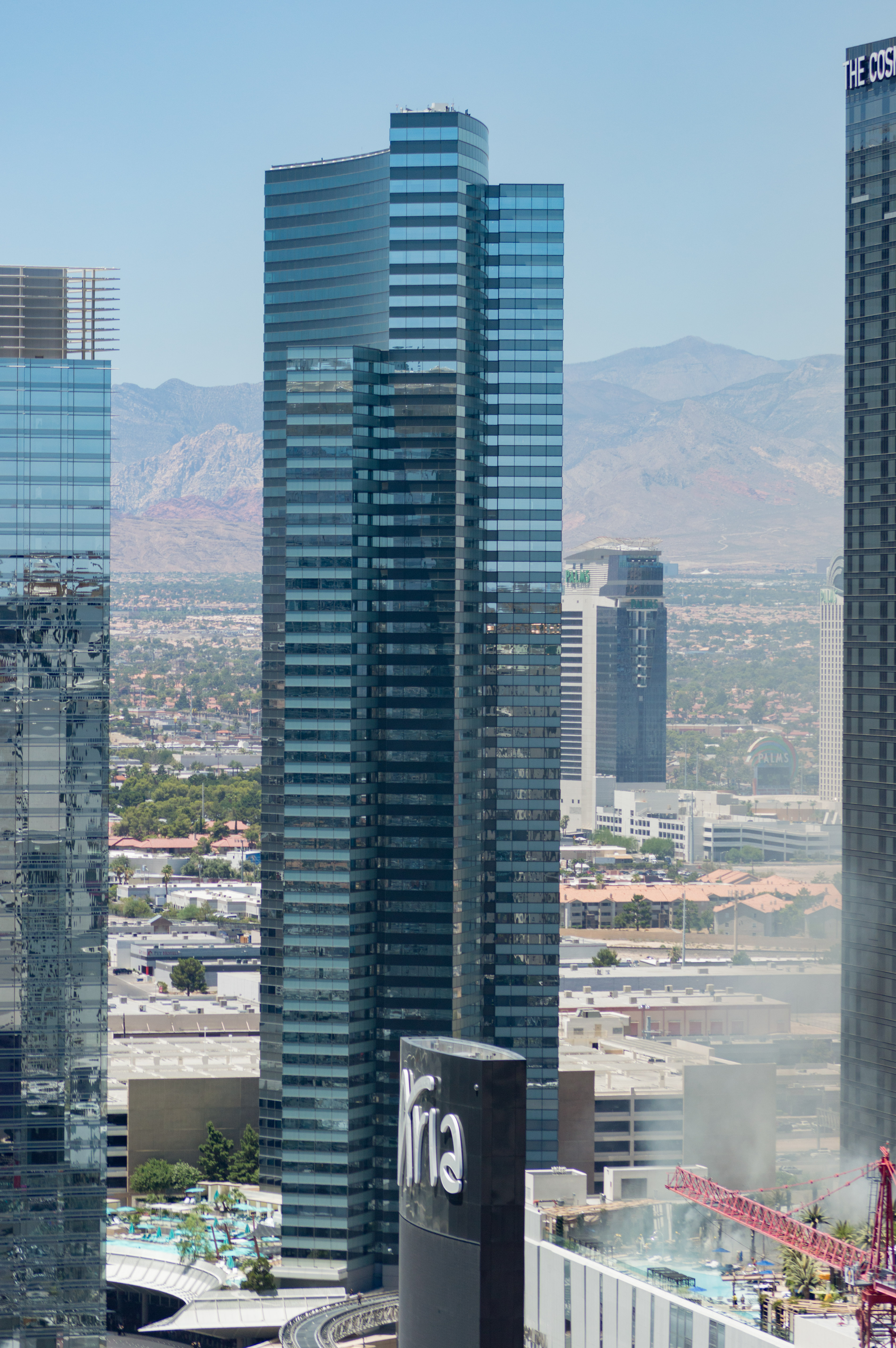 The Vdara hotel in Las Vegas, seen from the roof terrace of Marriott's Grand Chateau. In the downright corner the fire on July 25th 2015 at The Cosmopolitan hotel can be seen.